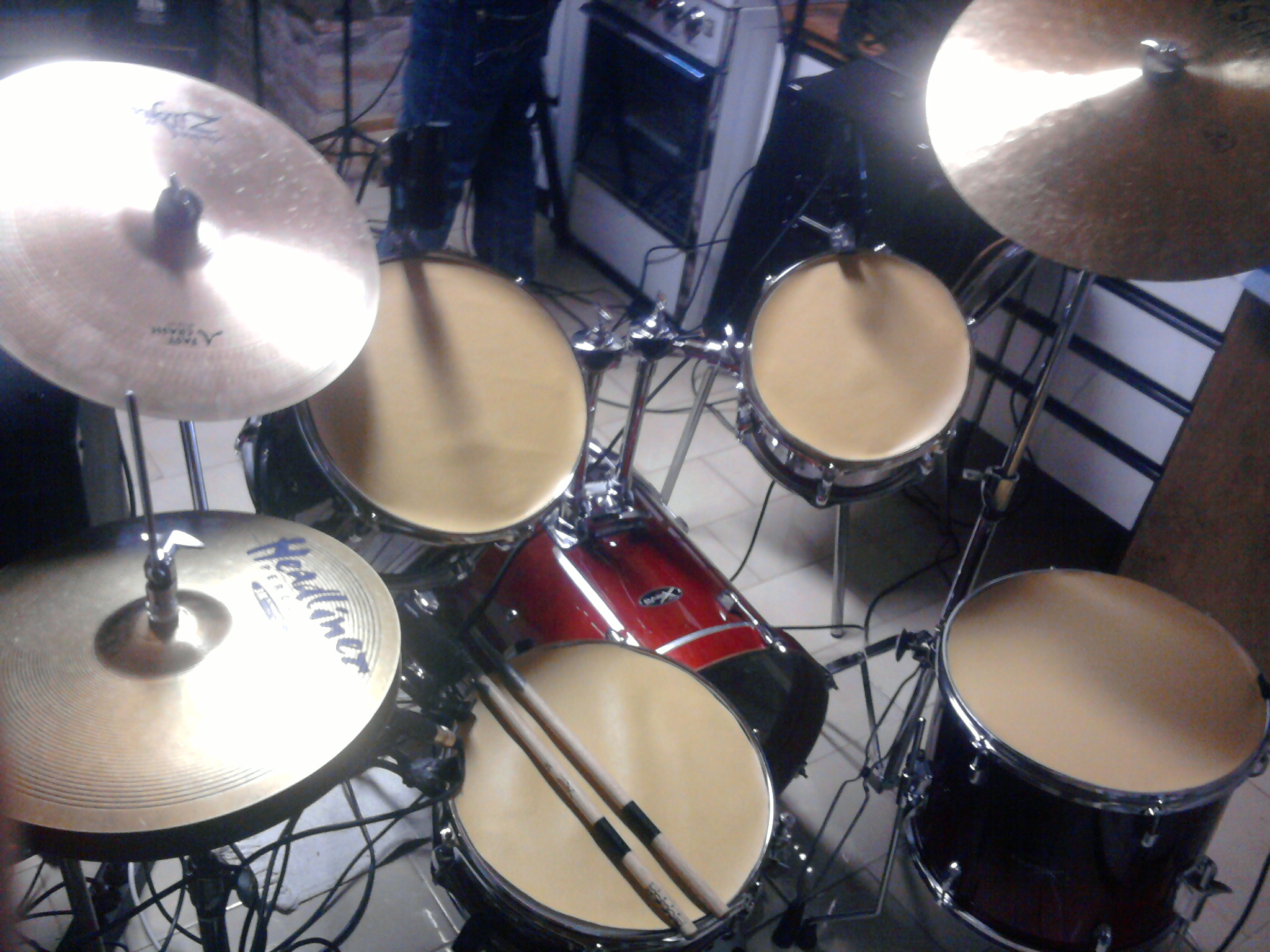 A drum set in a little rock band.